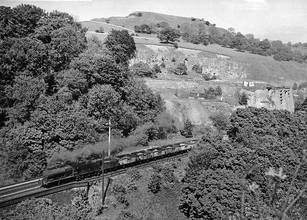 Looking down on the Peak Line at Millers Dale, with Down freight passing. View northward, towards Millers Dale station, Matlock and Derby to the right, Buxton, Peak Forest and Manchester to the left; ex-Midland Derby - Manchester main line and Buxton branch. The coal train is headed by LMS 4F 0-6-0 No. 44090 and will have banker behind for the long climb up from Rowsley to Peak Forest. In the background is probably Wheston Hill (1,248 ft.) near Tideswell.